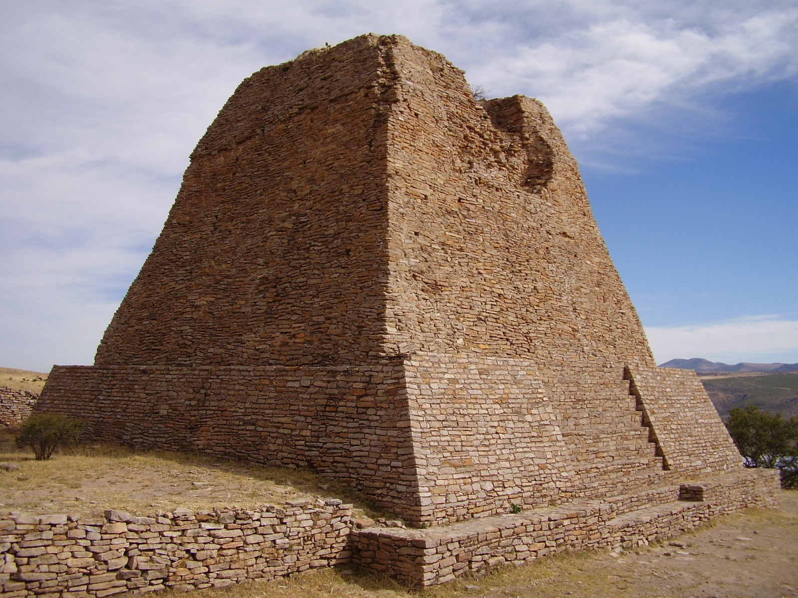 The Votive Pyramid of the archeological zone of La Quemada.